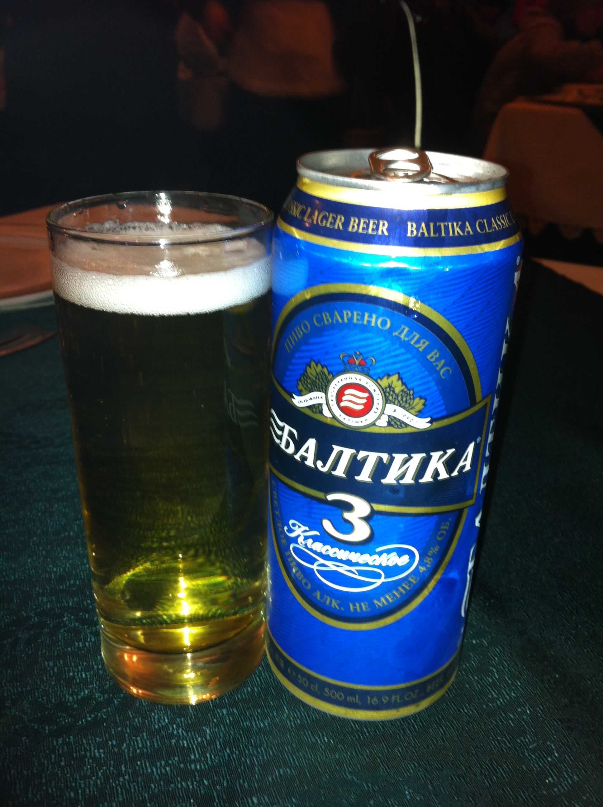 Beer Baltika 3